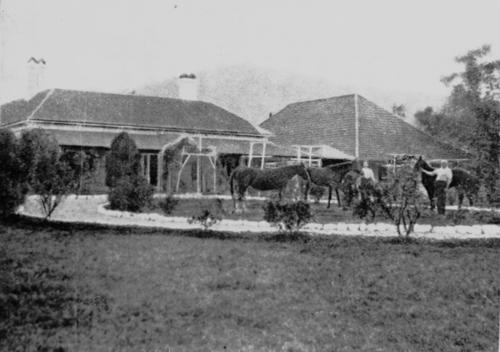 St John's Wood is the first major house in the suburb of St John's Wood. The heritage listed residence is an 1860s house built primarily of granite. The house is located at 31 Piddington Street, St John's Wood. The residence is also known as the Granite House.